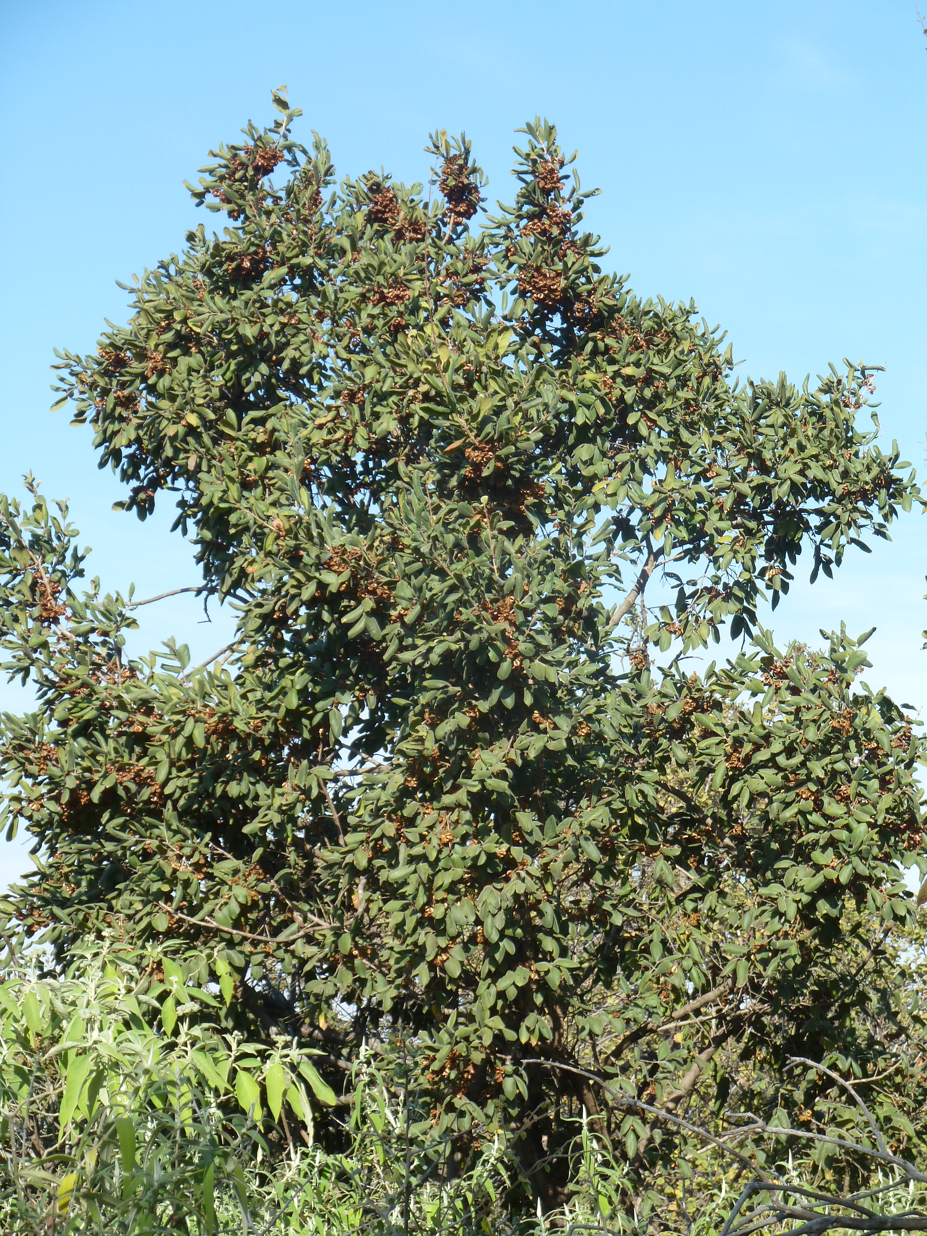 Foliage and fruit of Velvet bushwillow on the Bronberg near Pretoria